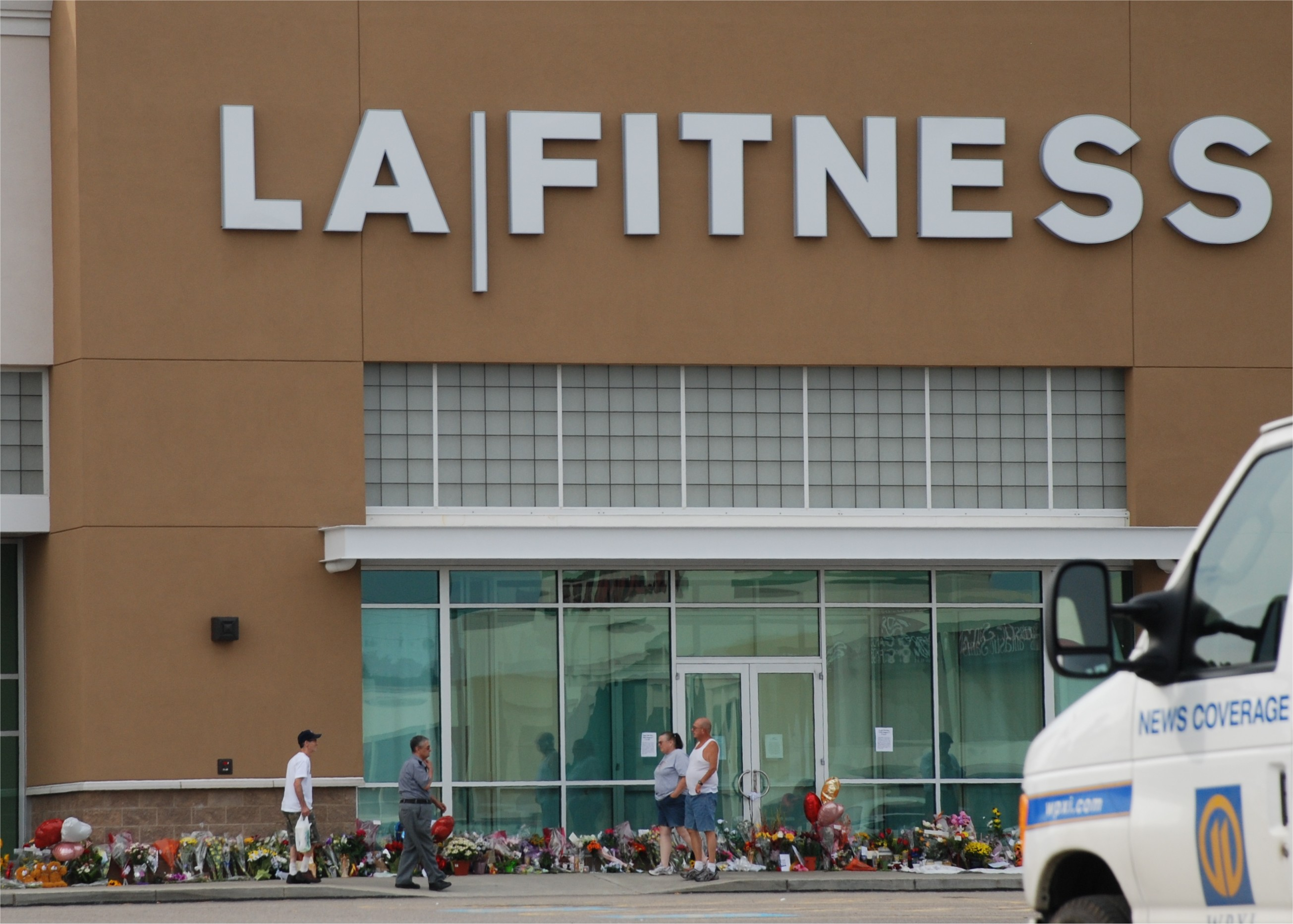 Flowers, balloons, and remembrances, outside the LA Fitness center after the mass murder of 2009 in Collier Township